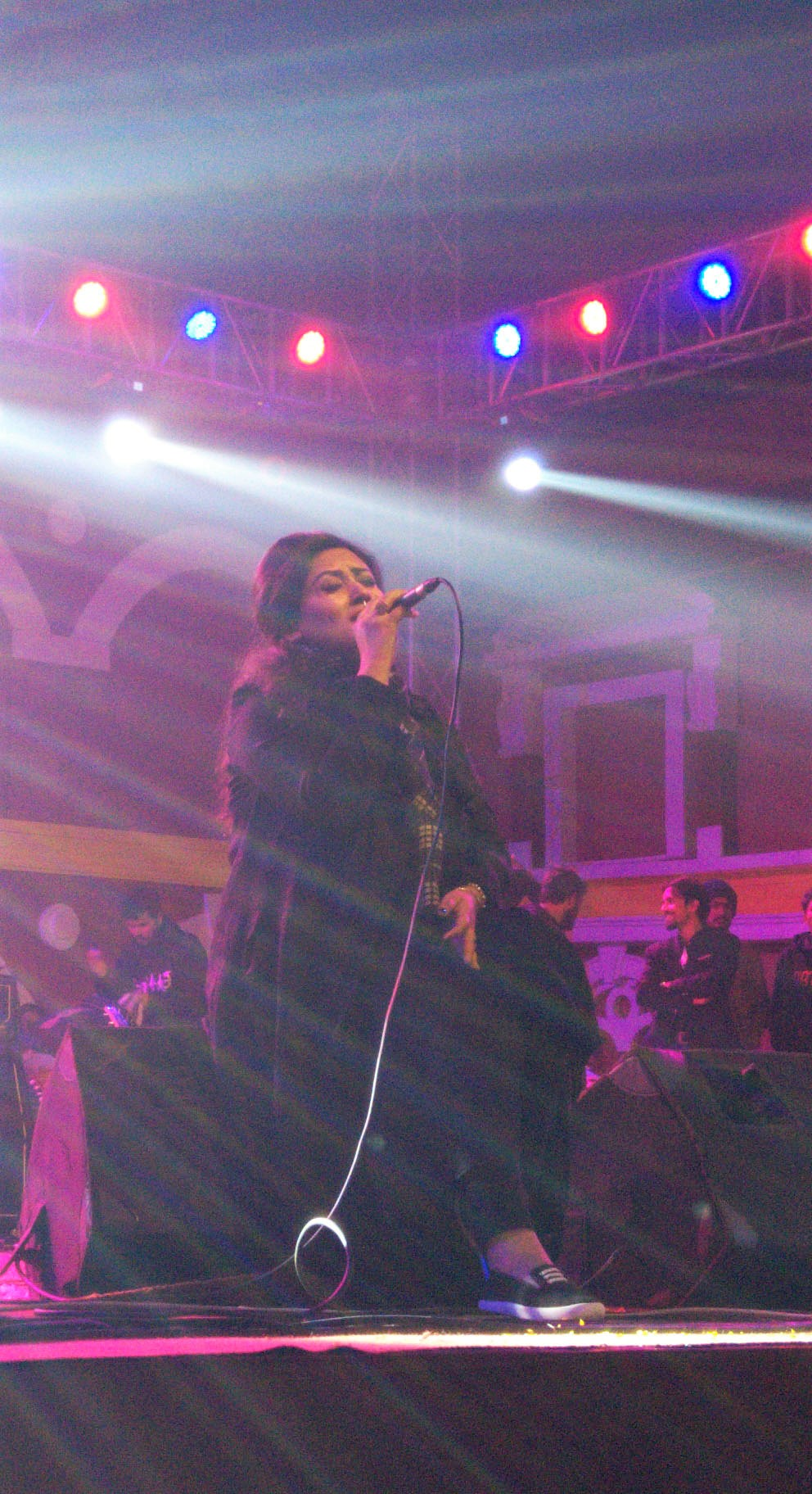 Sharmin Sultana Sumi (better known as Sumi) is a Bangladeshi singer. She is a lead vocalist of the band Chirkutt.